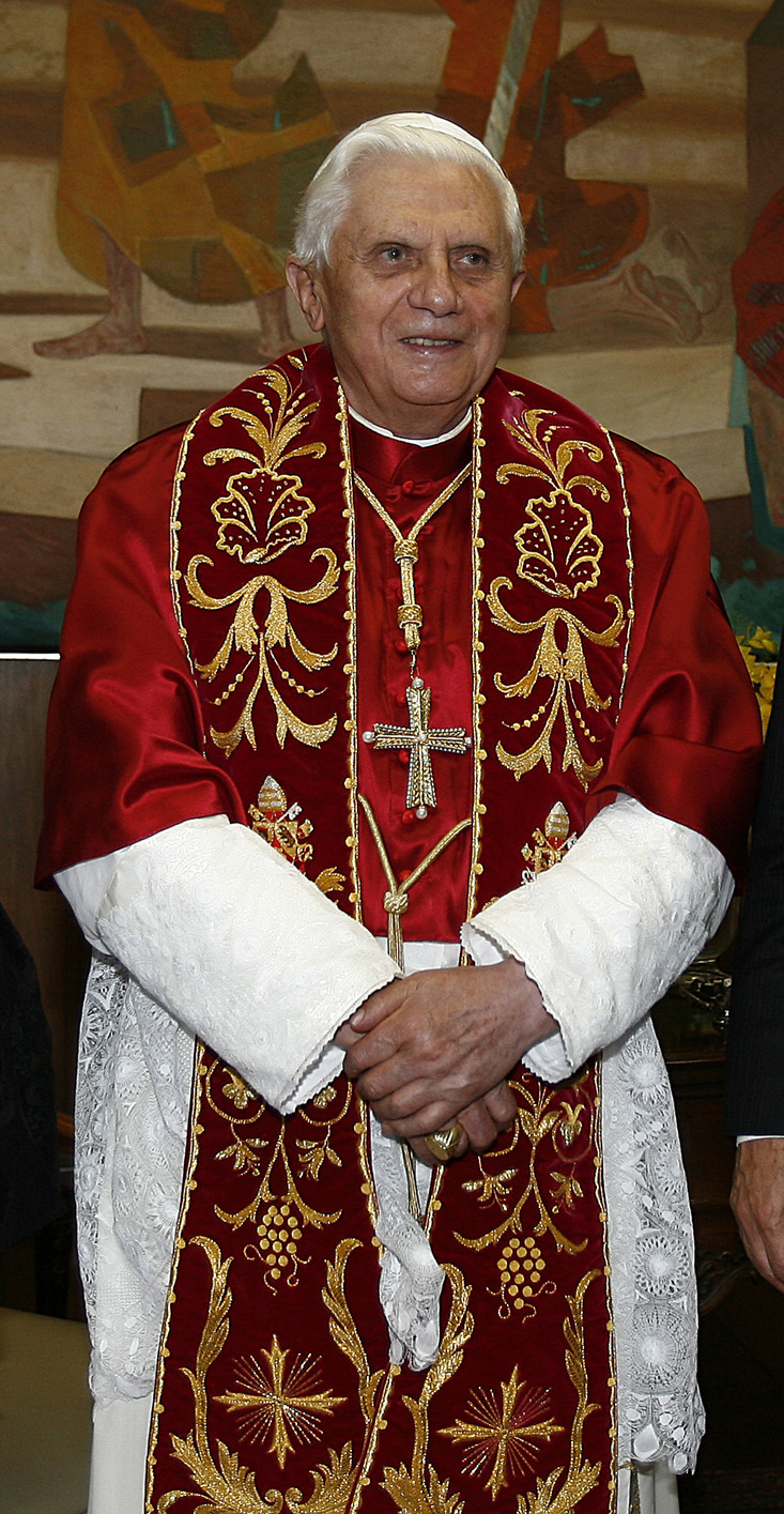 Pope Benedict XVI during visit to São Paulo, Brazil.